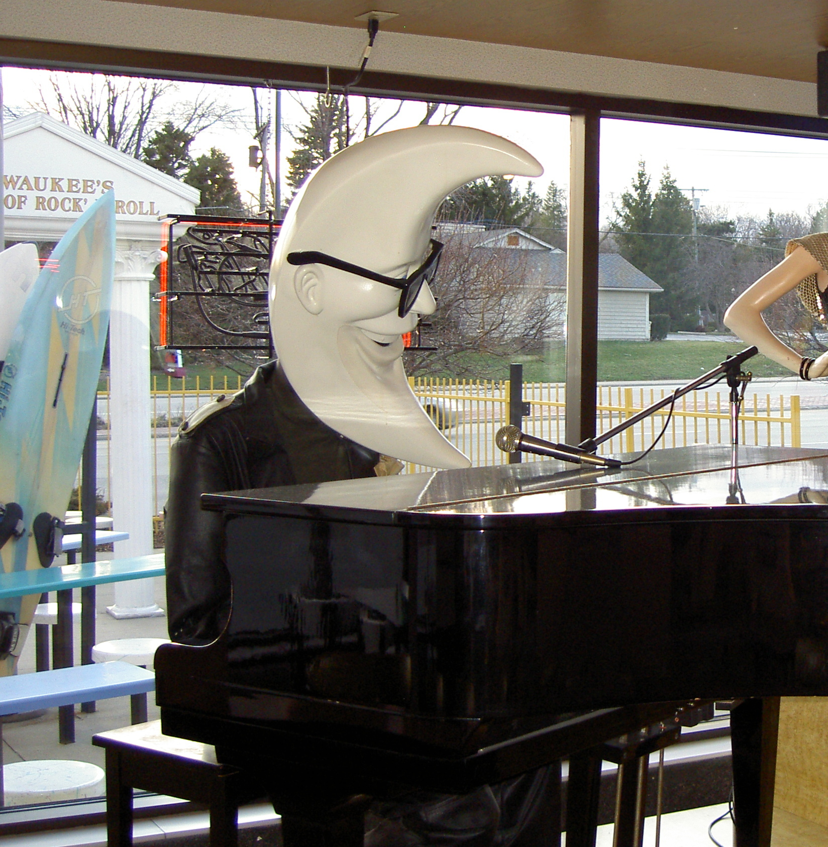 The Mac Tonight character at Solid Gold McDonald's in Greensfield, Wisconsin.